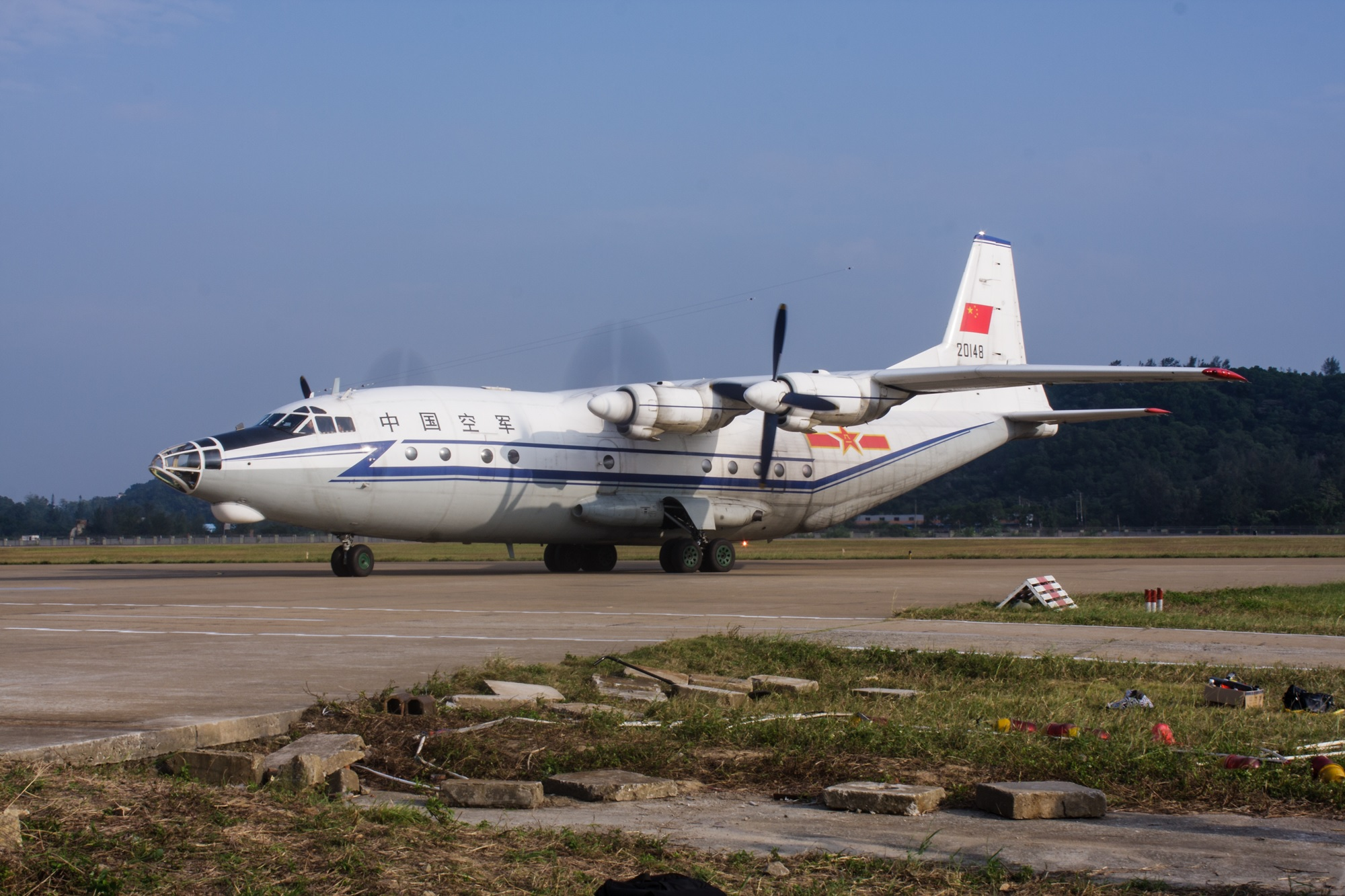 A Shaanxi Y-8 transport at Zhuhai Airshow 2012